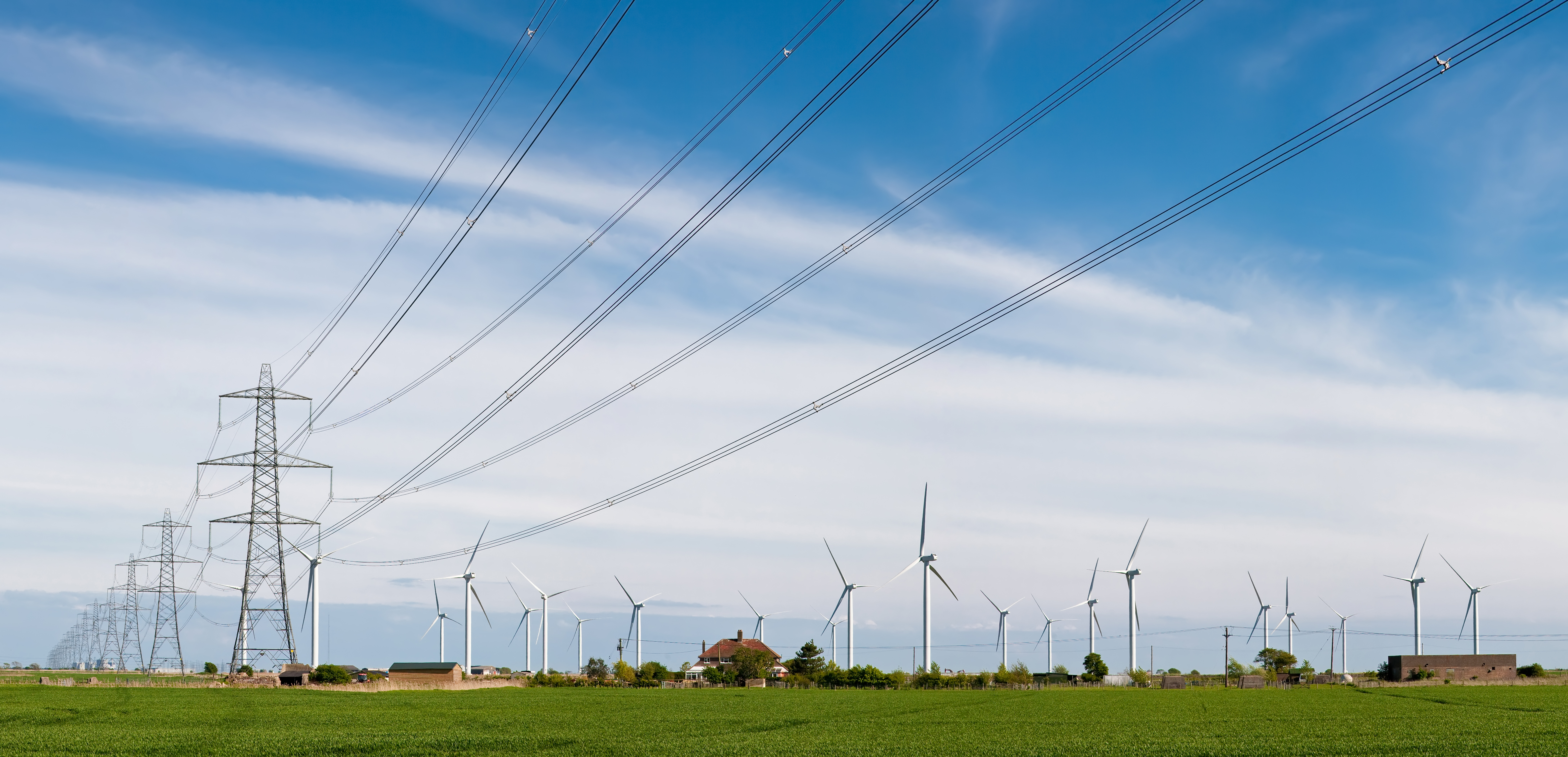 A windfarm and electricity pylons/power lines near Rye, East Sussex, England. The 400 kV power lines are from Dungeness Nuclear Power Station, which is just visible on the skyline behind the pylons.